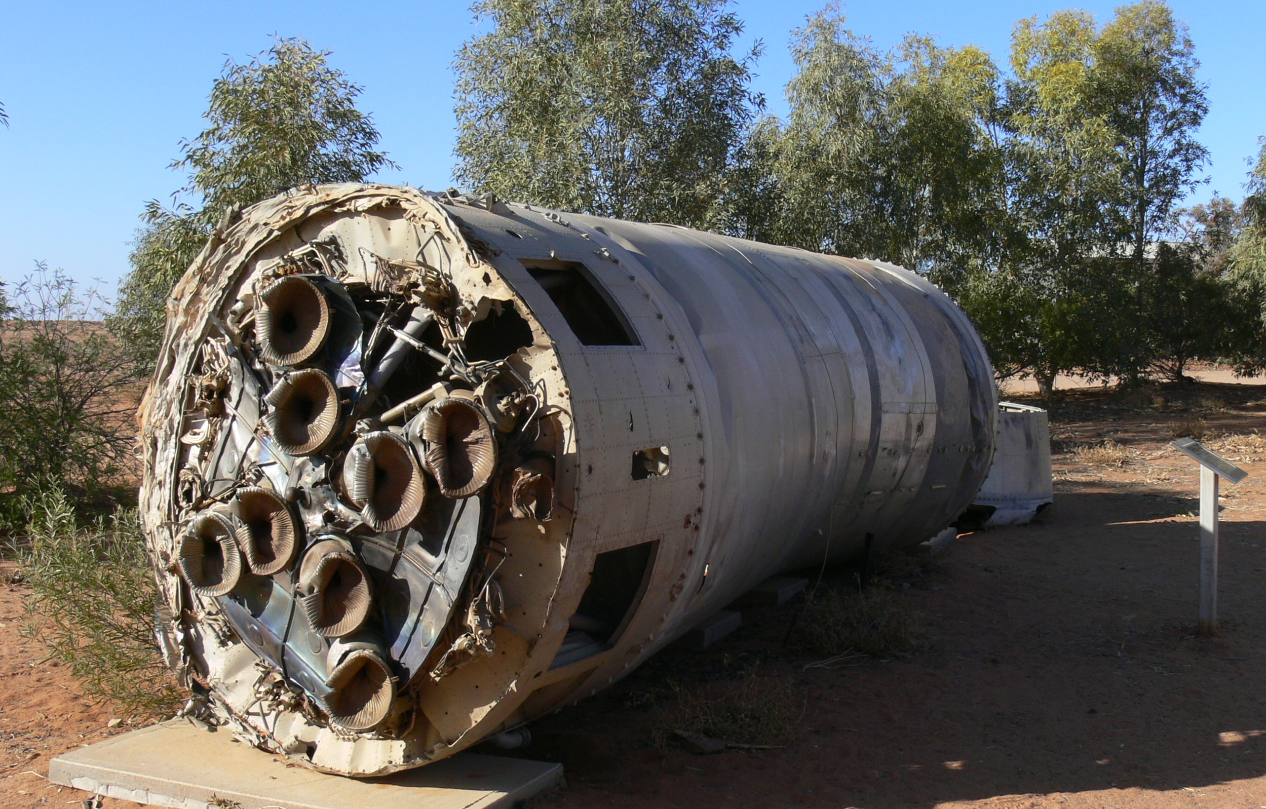 Remains of the first stage of the British Black Arrow three stage rocket, showing the eight nozzles of its Gamma engine. Launch R3 was successfully launched from Woomera rocket range in October 1971. This portion of the rocket is now in the Memorial Park at William Creek, South Australia, having been recovered from the surrounding Anna Creek Station.